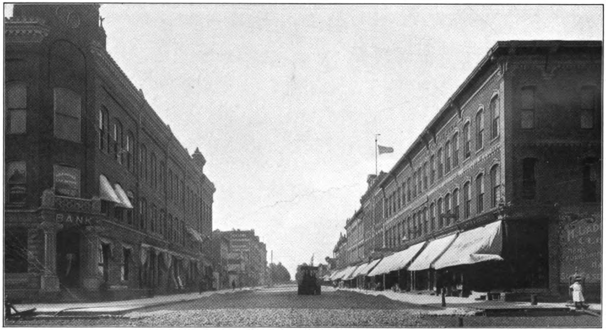 The Nisbett Building (left) and the Fairman Building (right) in Big Rapids, Michigan, circa 1906. The Nisbett is a Michigan State Historic Site and is listed on the NRHP. The Fairman is listed on the NRHP.